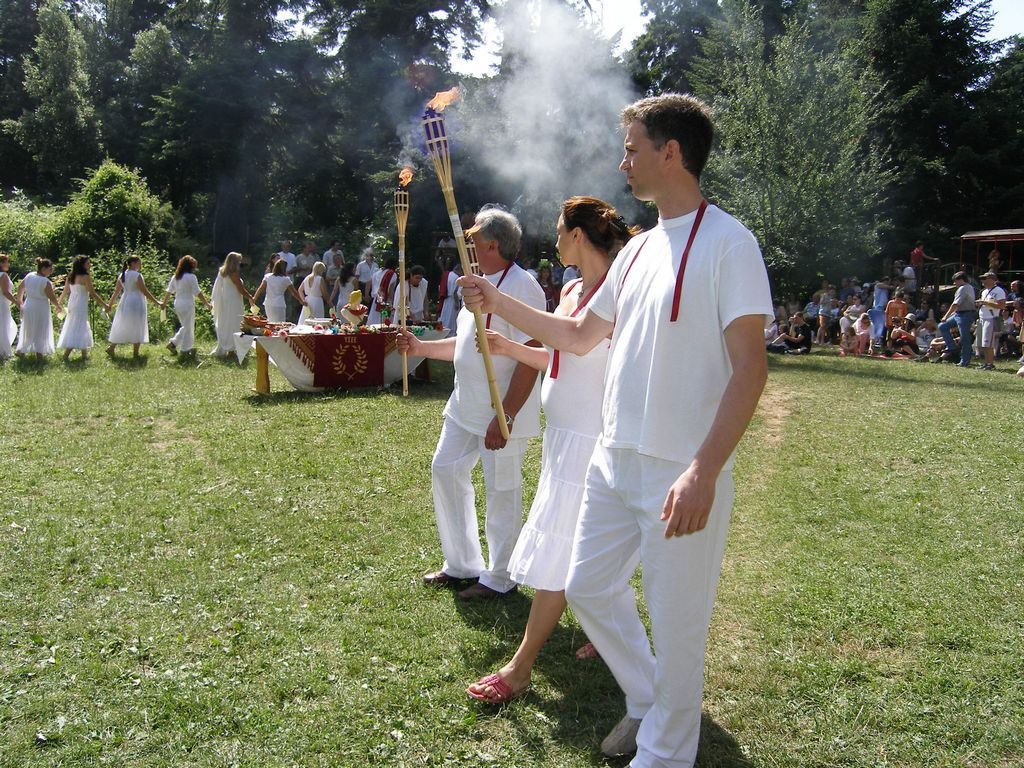 Hellen ritual performed by members of the YSEE, Supreme Council of Ethnikoi Hellenes.